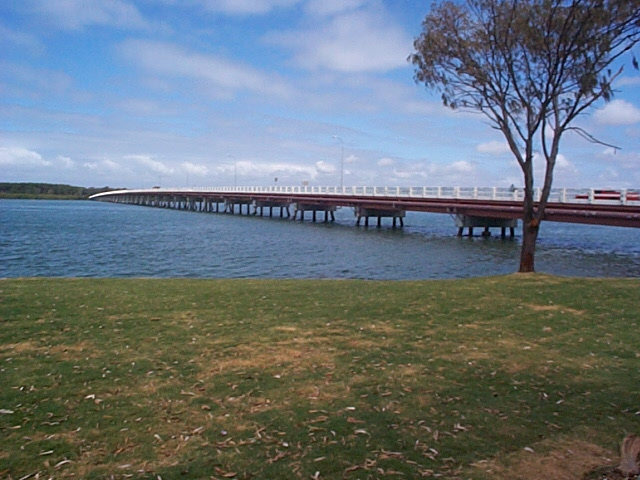 Bribie Island Bridge, opened in 1963 as a toll bridge but now free! Taken by MichaelGG on 7 November 2006. Le pont à péage de l'île Bribie, Queensland, Australie